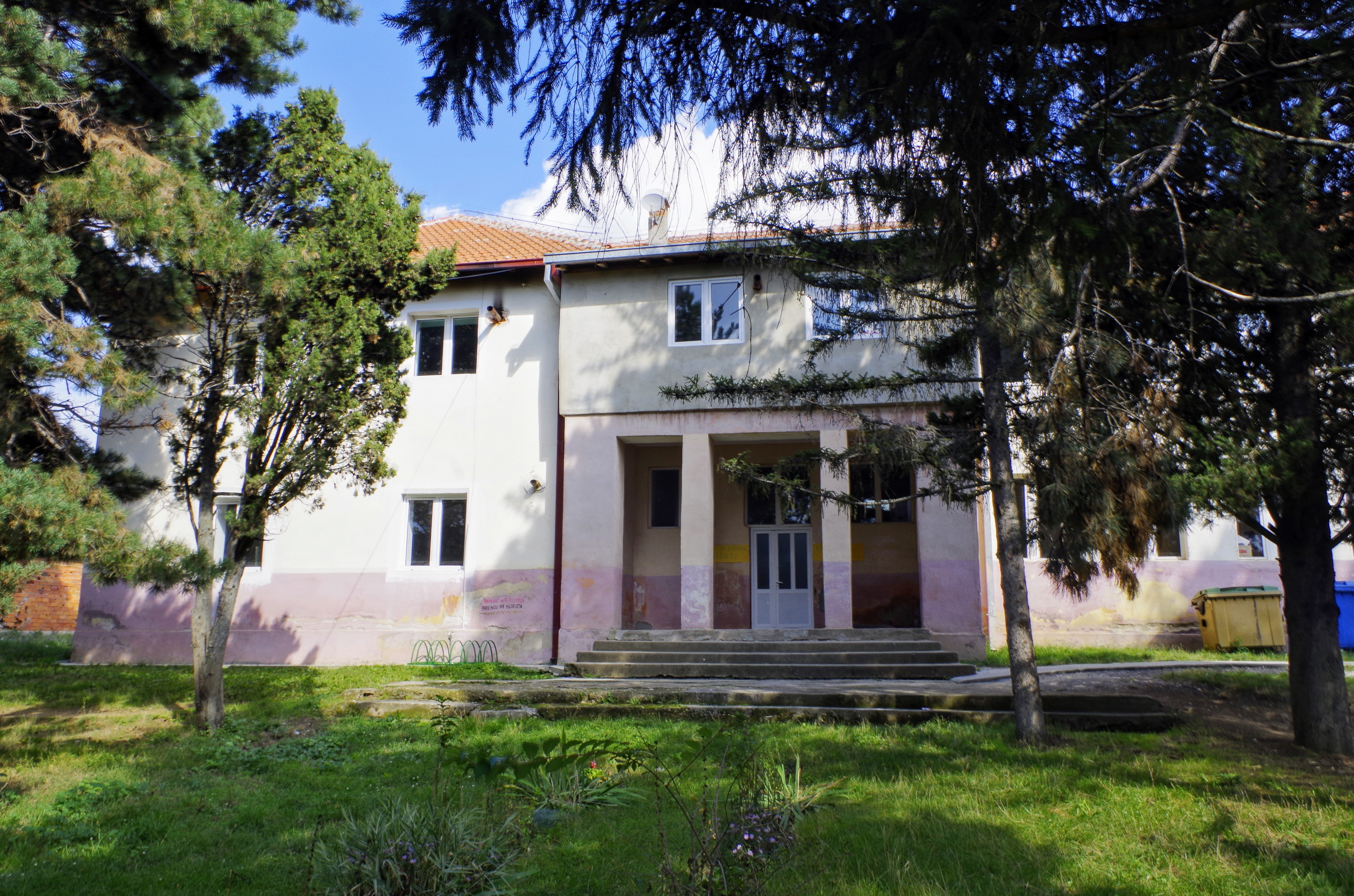 View of the village Podmočani